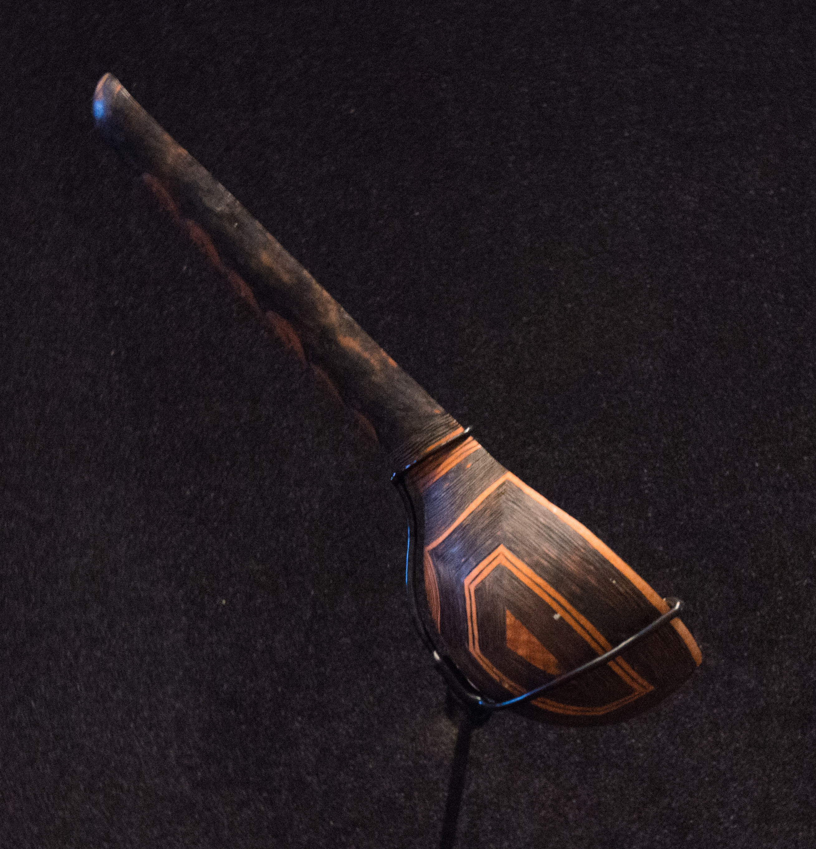 Registration number GH012666, more info at